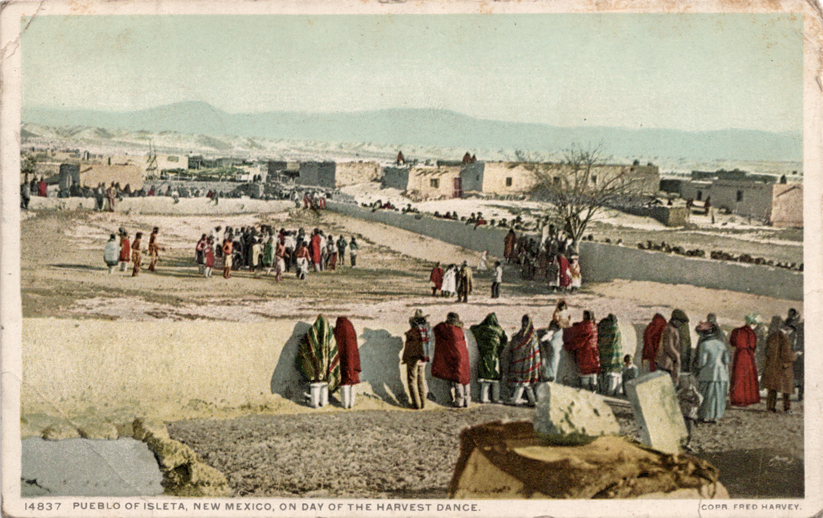 Color postcard. "Pueblo of Isleta, New Mexico, on day of the harvest dance." No. 14837. Trade mark "Phostint" card, reg. U.S. Pat. Off. Published only by Detroit Publishing Co. Back reads, "The annual festival at Isleta takes place on August 28th of each year. The dance is similar in meaning to the harvest dances of the other pueblos and is a prayer for rain and bountiful harvests. Isleta is 13 miles south of Albuquerque, and is the largest pueblo in New Mexico, numbering about 1000 inhabitants."